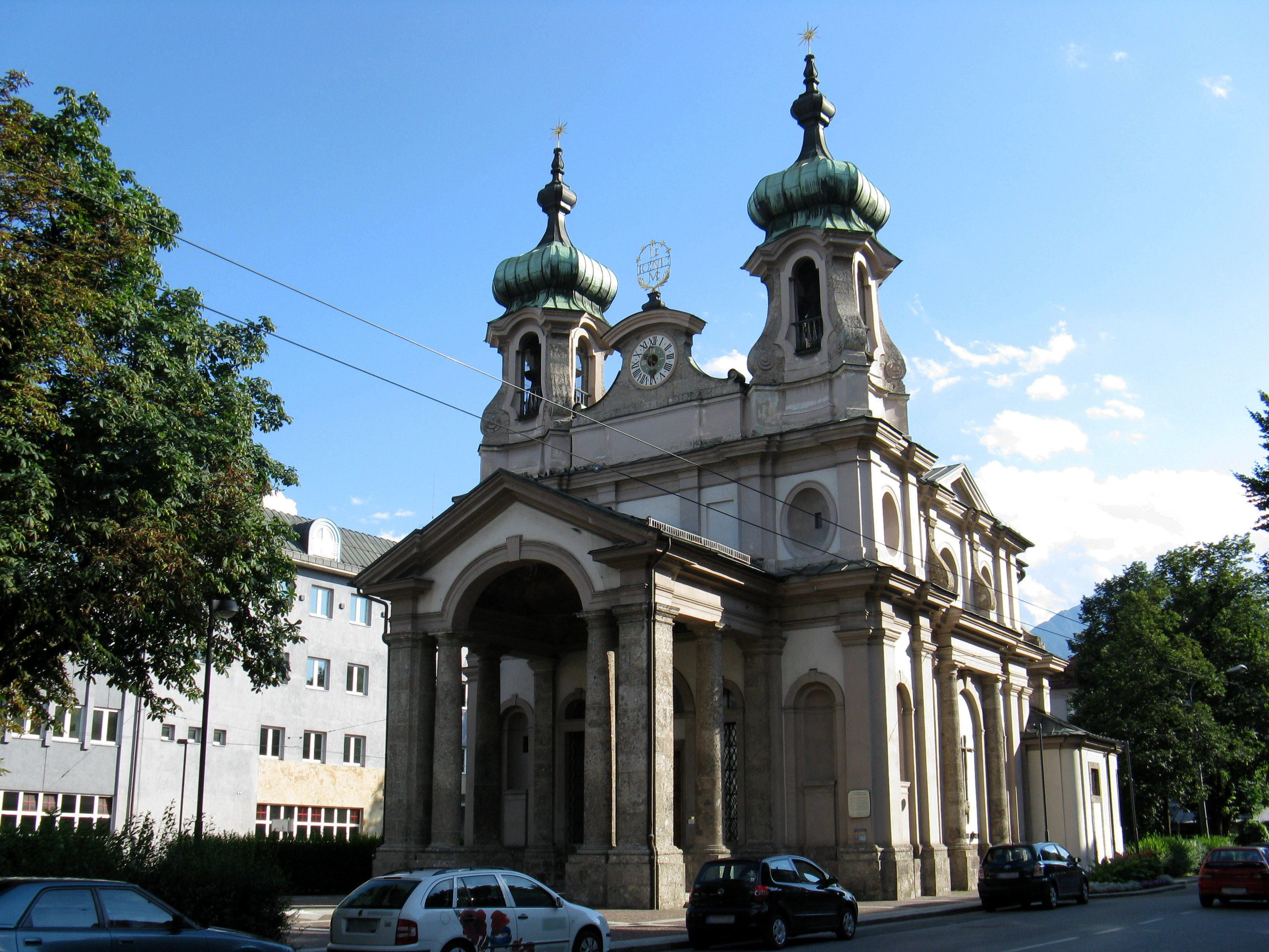 Johannes church in Innsbruck, Austria